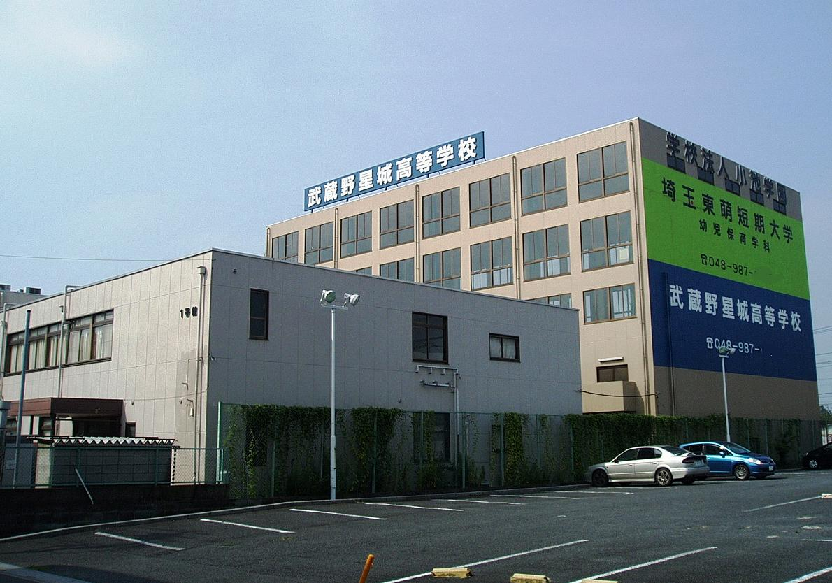 Bldg. #1 (left) and #3 (Gym) of Musashino Seijo High School located in Koshigaya, Saitama, Japan.Telephone numbers written on the wall have been masked by the uploader.